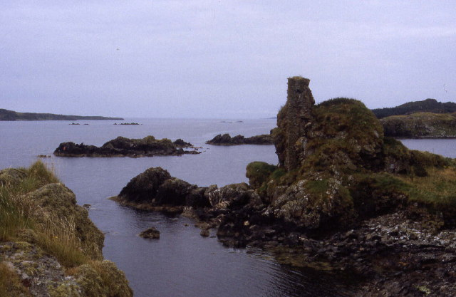 Dunyvaig Castle. Guards the entrance to Lagavulin Bay